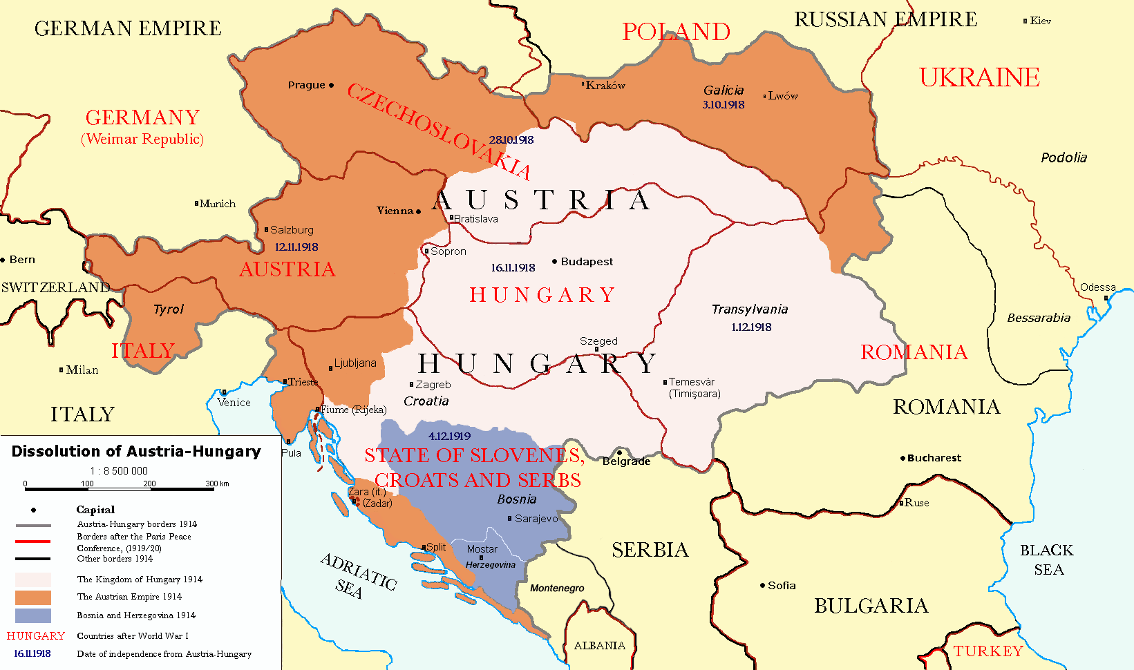 The end of Austria-Hungary after the Paris Treaty. Border of Austria-Hungary in 1914 Borders in 1914 Borders in 1920 Austrian Empire in 1914 Kingdom of Hungary in 1914 Bosnia and Herzegovina in 1914